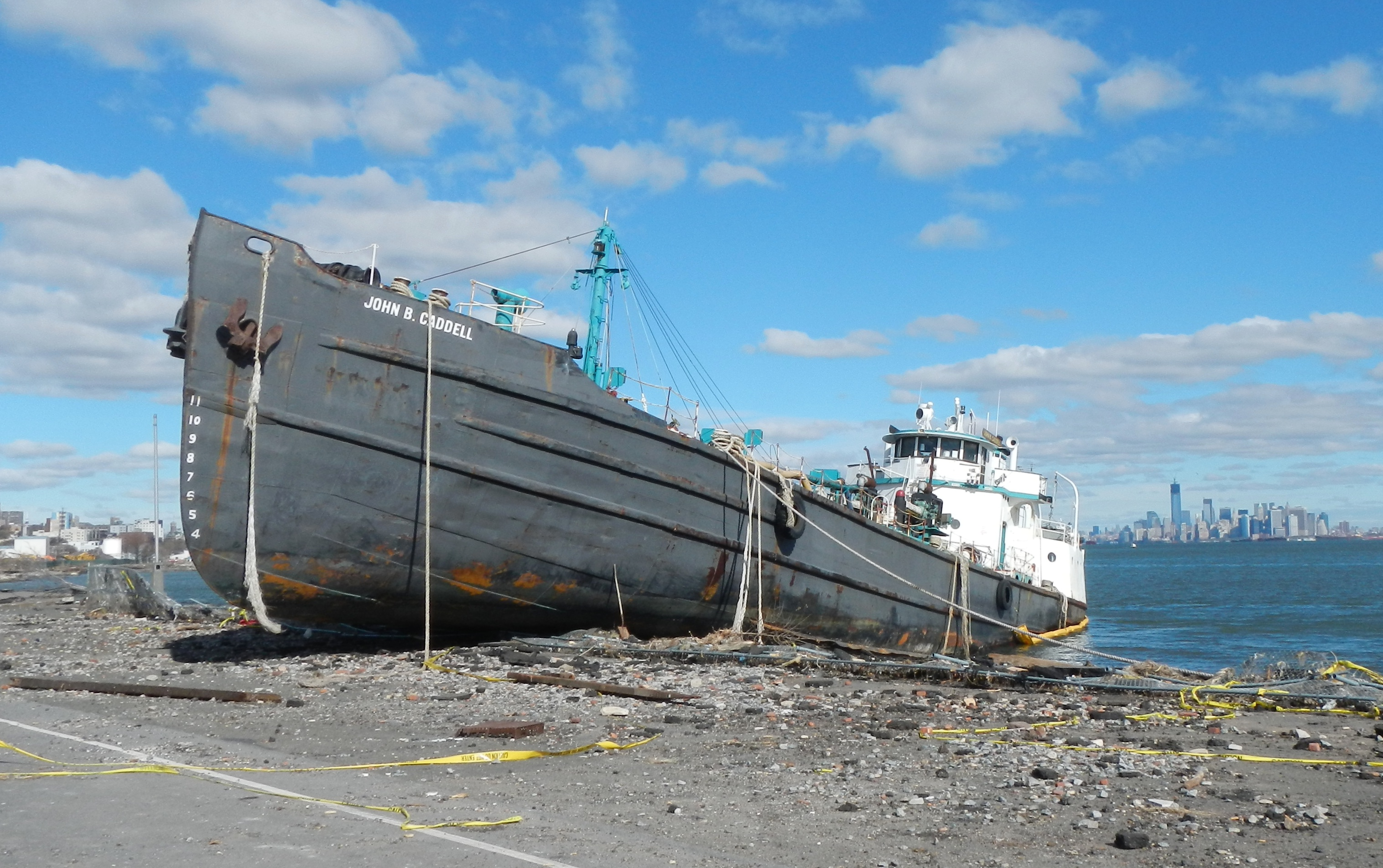 Looking north at beached tanker on the first sunny day after storm.